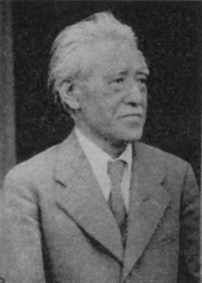 Tarō Ochiai.